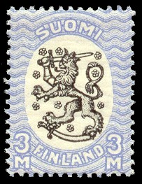 Standard postage stamp of the Saarinen design from the year 1925 (3 Marks)